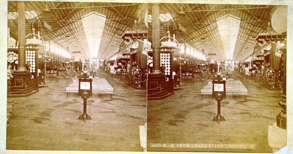 Stereocard view of "Centennial Exposition", 1876 World Fair in Philadelphia. "Main Building, from Grand Stand, looking West"